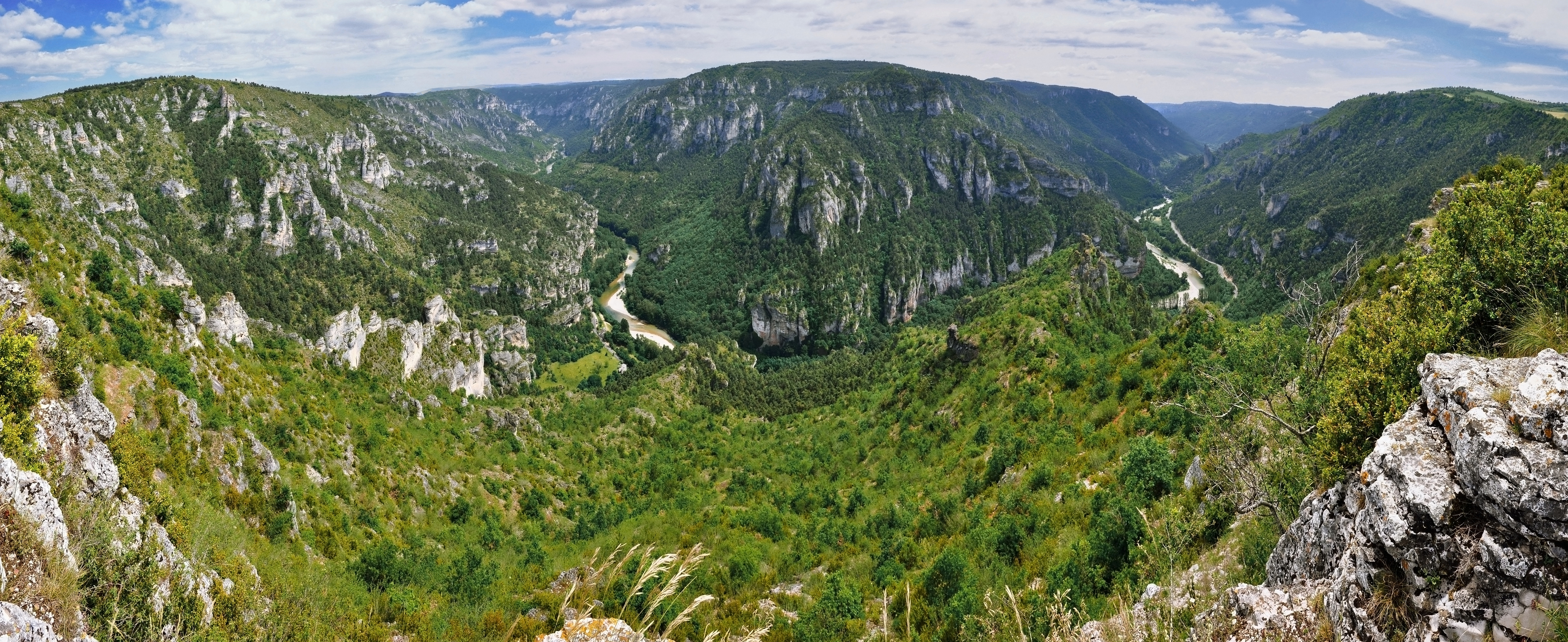 impressive view from "Point Sublime" into the "Gorges du Tarn"